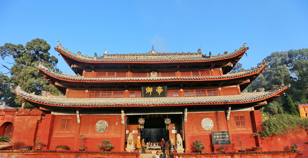 Temple of Mount. Qiqu